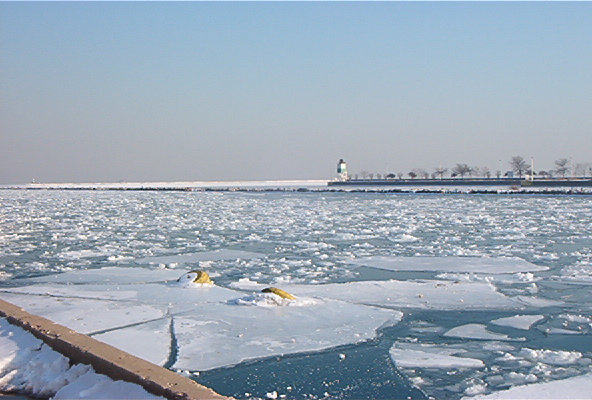 Lake Michigan with frozen surface, as seen from the Chicago shoreline.